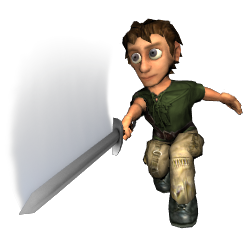 Artwork of a clonk slashing with his sword from the OpenClonk video game.